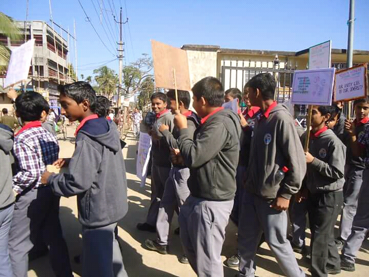 School